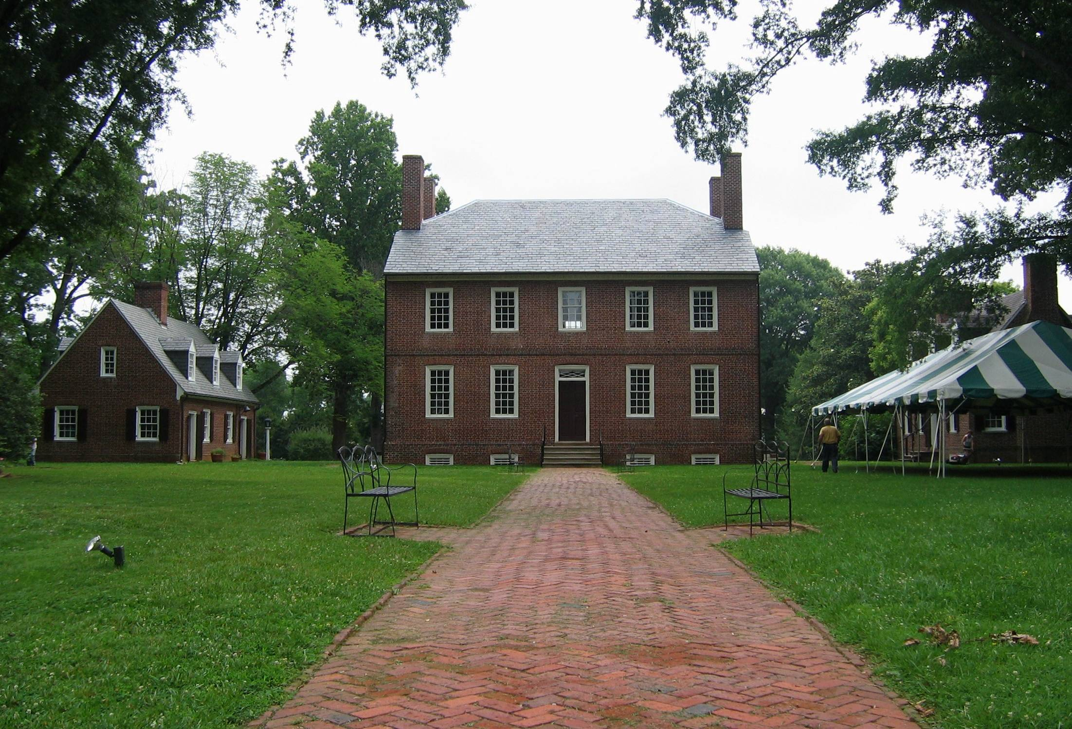 Kenmore Plantation in Fredericksburg, Virginia as seen in 2006.